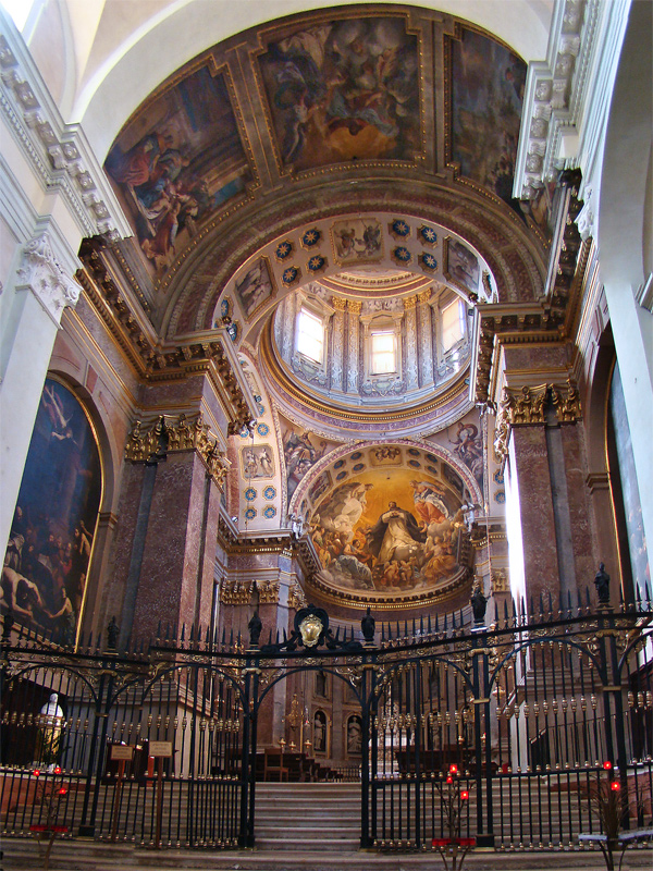 San Domenico Basilica, Bologna, Emilia-Romagna, Italy. Saint Dominic’s chapel.